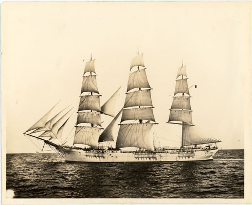 Sailing ship Paul Jones. 1 photographic print: b&w. Written on back: "Paul Jones. Builder: Waterman & Elwell; Medford; 1842; Dimensions: 624 x 144.6 x 30.8; Tonnage: 620 tons; Type: Clipper Ship (painted white)."